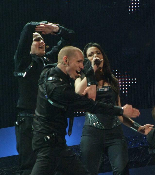 Malta: Morena performing Vodka at second semi-final, Eurovision Song Contest 2008 in Belgrade, Serbia, May 22, 2008.